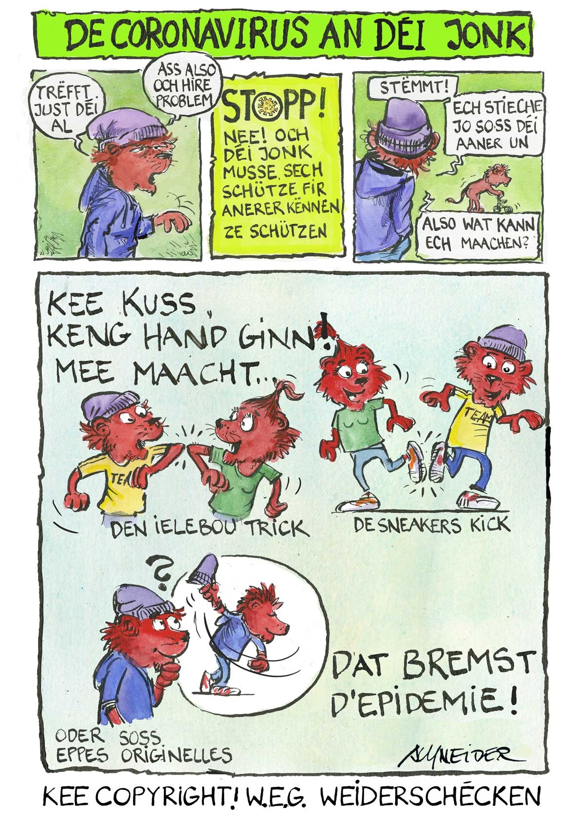 Comic telling the youth in Luxembourgish how to prevent the COVID-19 from spreading by changing their greeting methods. The message in Luxembourgish underneath the comic strips states that it has no Copyright and asks the reader to share it.